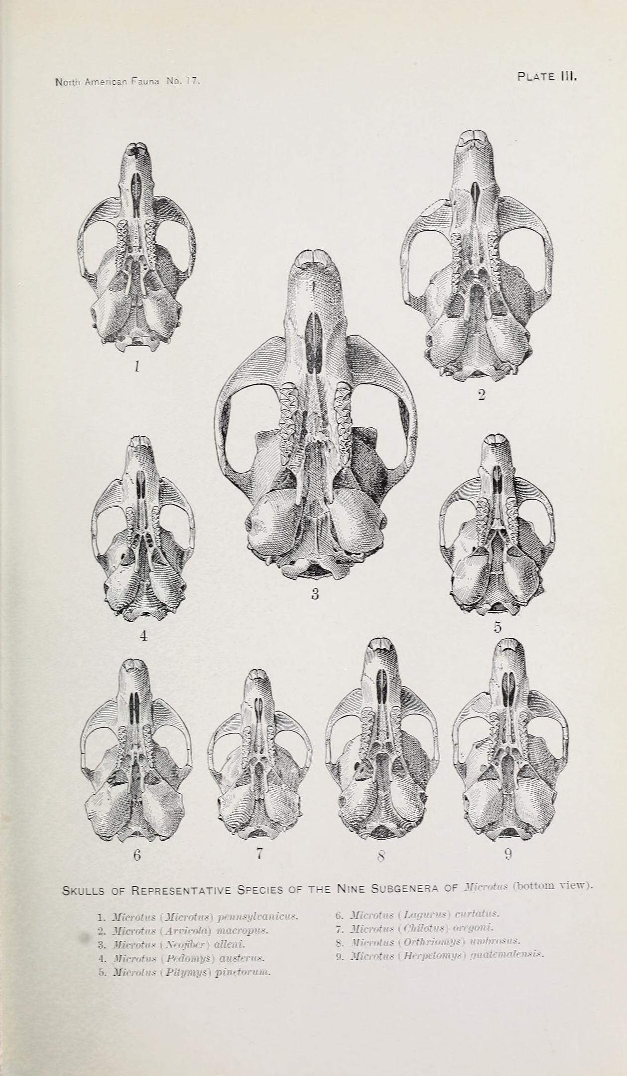 Microtus skulls Bailey 1900 bottom Revision of American voles of the genus Microtus (1900)